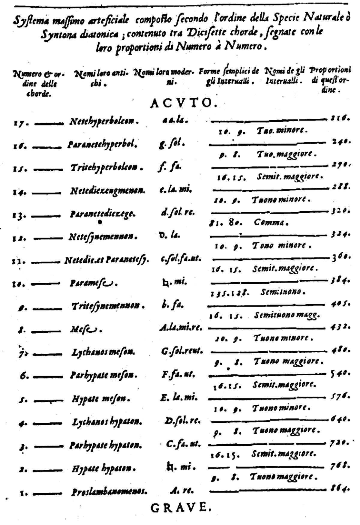 Description of Zarlino's natural scale for just intonation